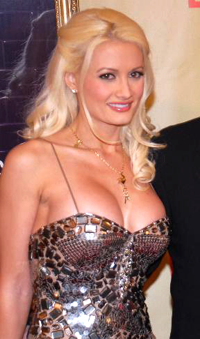 Holly Madison